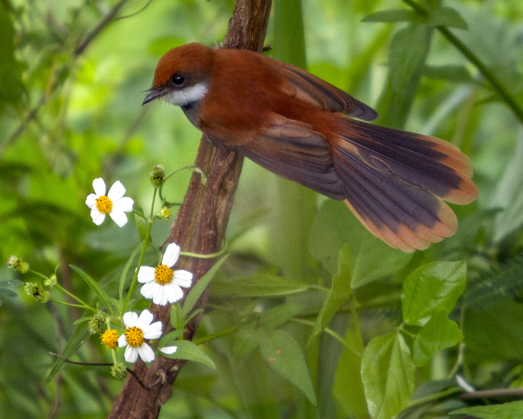 A photograph of a Palau Fantail (Rhipidura lepida) photographed in Koror Palau in 2013 by Devon Pike.